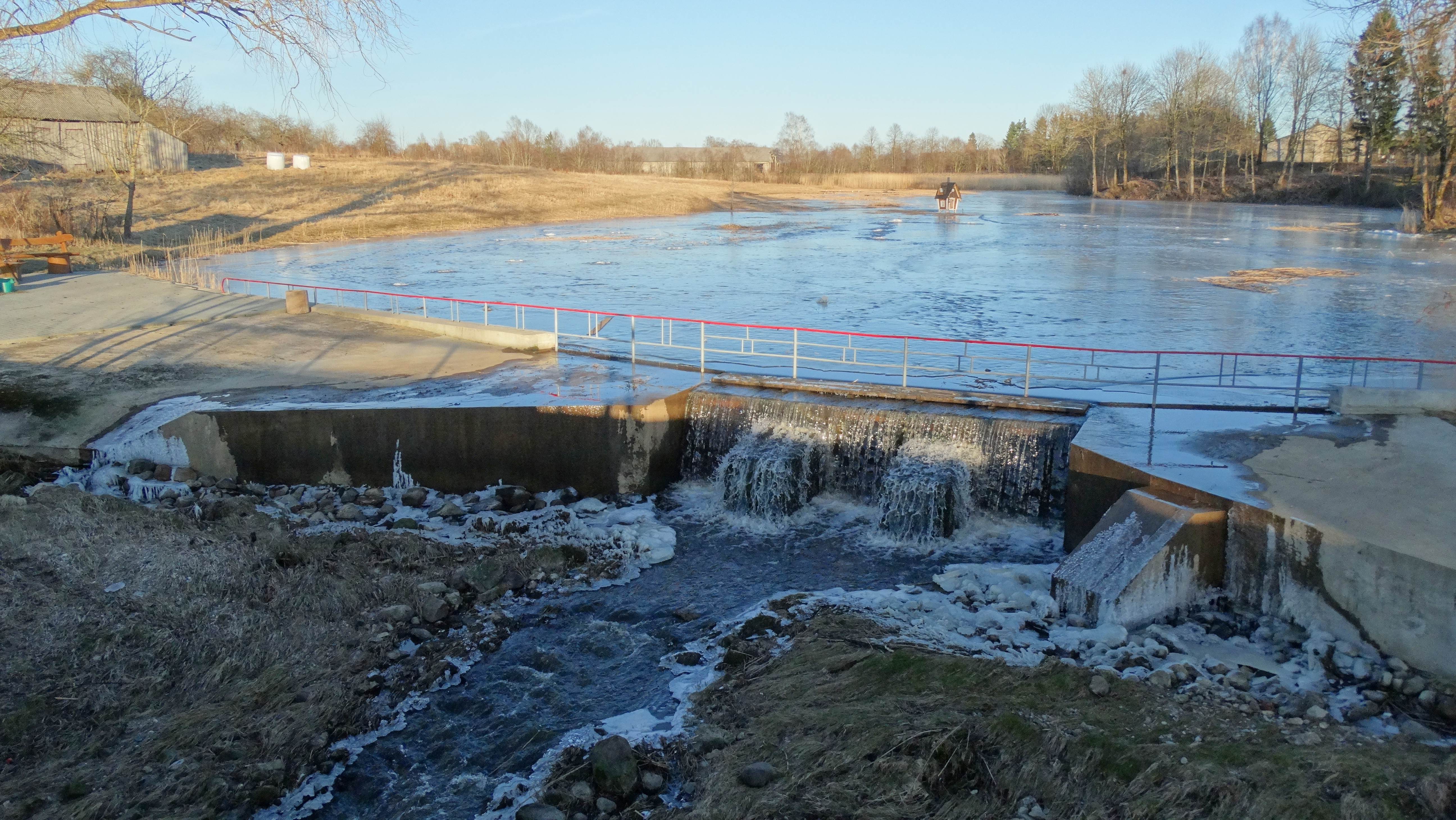 Kuliai, Plungė District, Lithuania